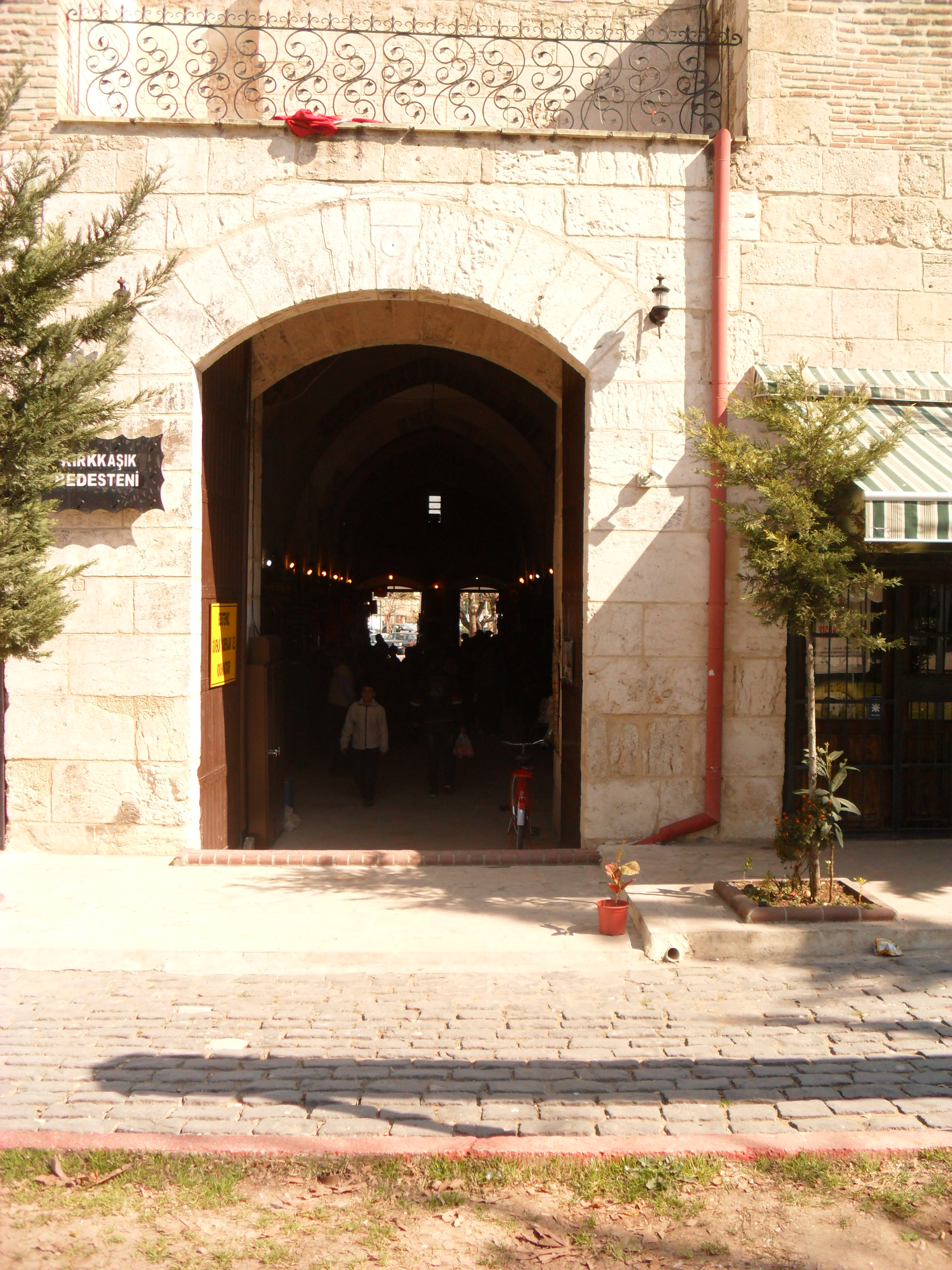 The west portal of the bedesten